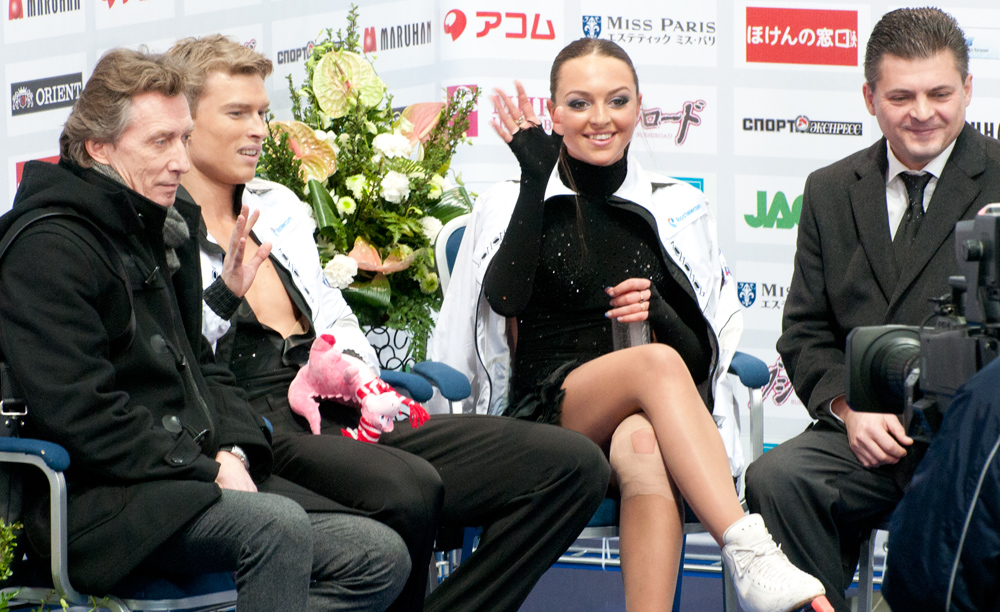 2011 Cup of Russia, short program.